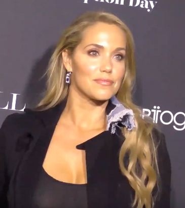 Elizabeth Berkley at the 2nd Annual Baby Ball Gala at NeueHouse in Hollywood